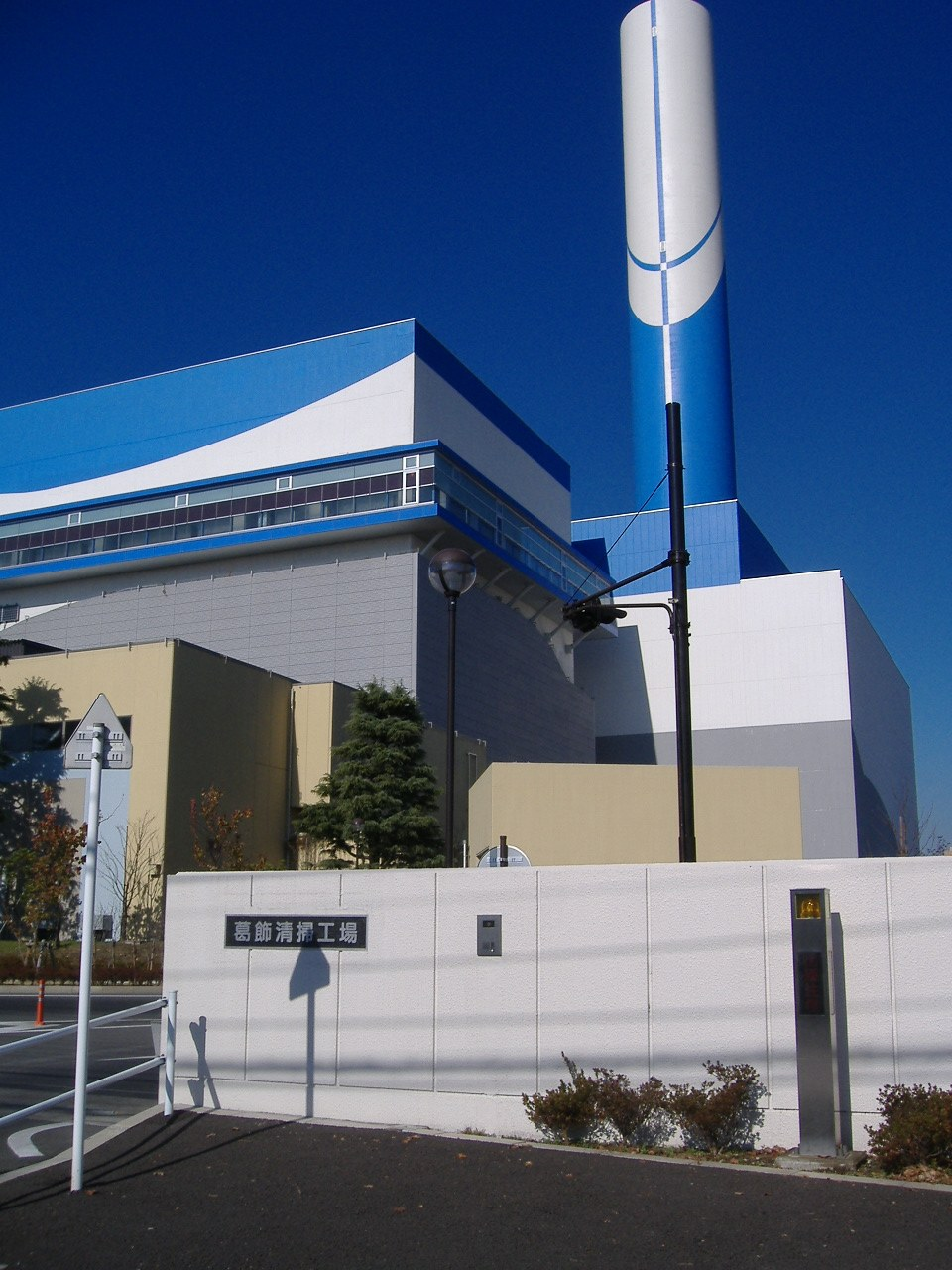 Katsushika Waste Incineration Plant (Tokyo, Japan)